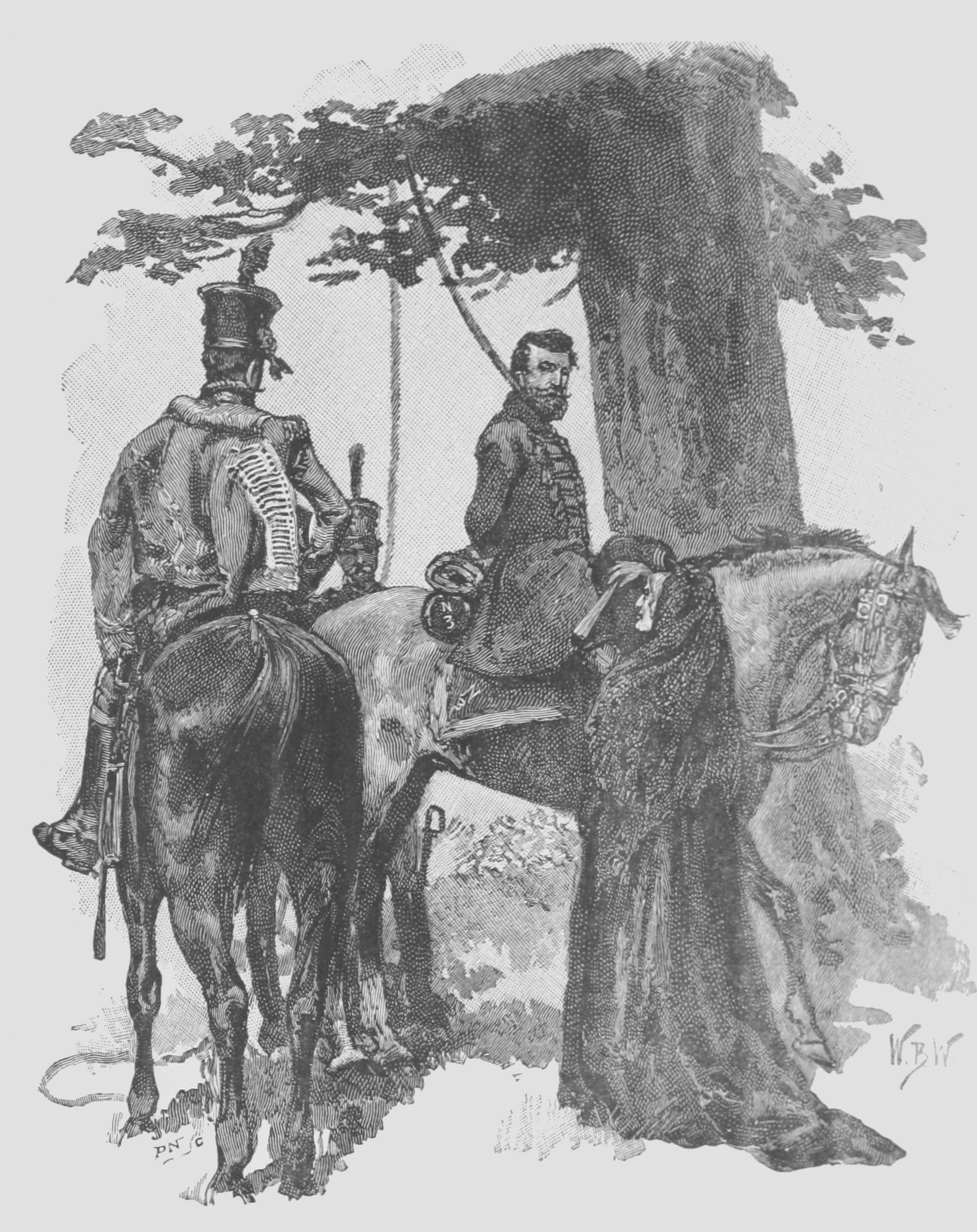 Plate of The Exploits of Brigadier Gerard